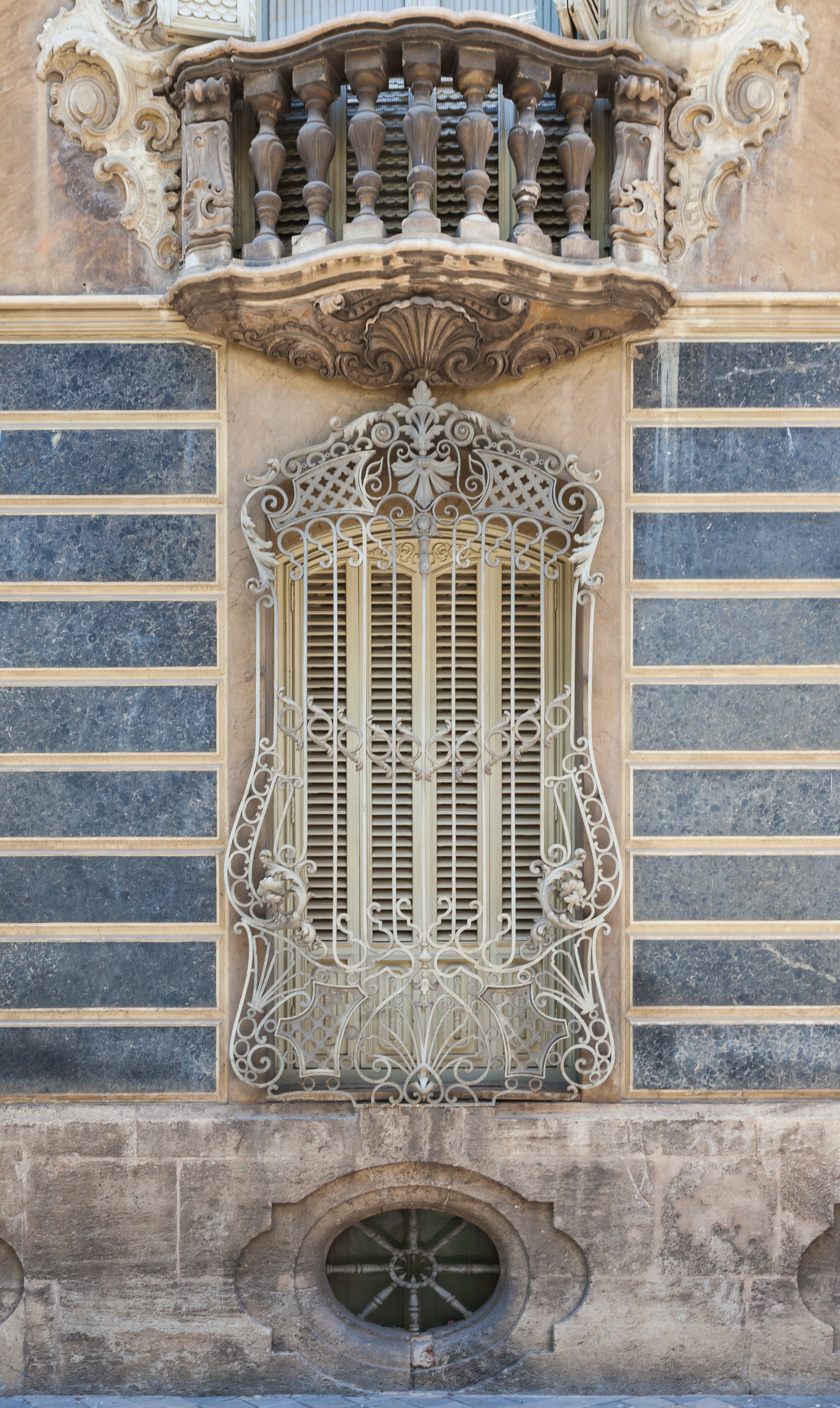 National Museum of Pottery, Valencia, Spain